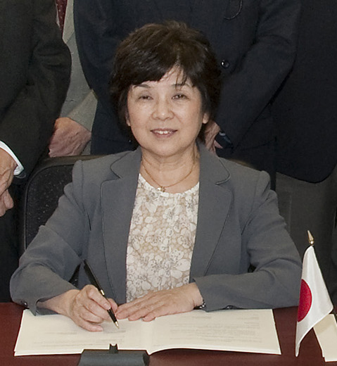 Signing the six-year extension of the agreement on the physics program at the Relativistic Heavy Ion Collider and the RIKEN BNL Research Center (RBRC) are (front) Maki Kawai, executive director of Japan’s RIKEN, and Sam Aronson, BNL director. With them are members of the RBRC Management Steering Committee, RBRC and BNL observers, RIKEN administrative staff, and other distinguished attendees. At Brookhaven National Laboratory.